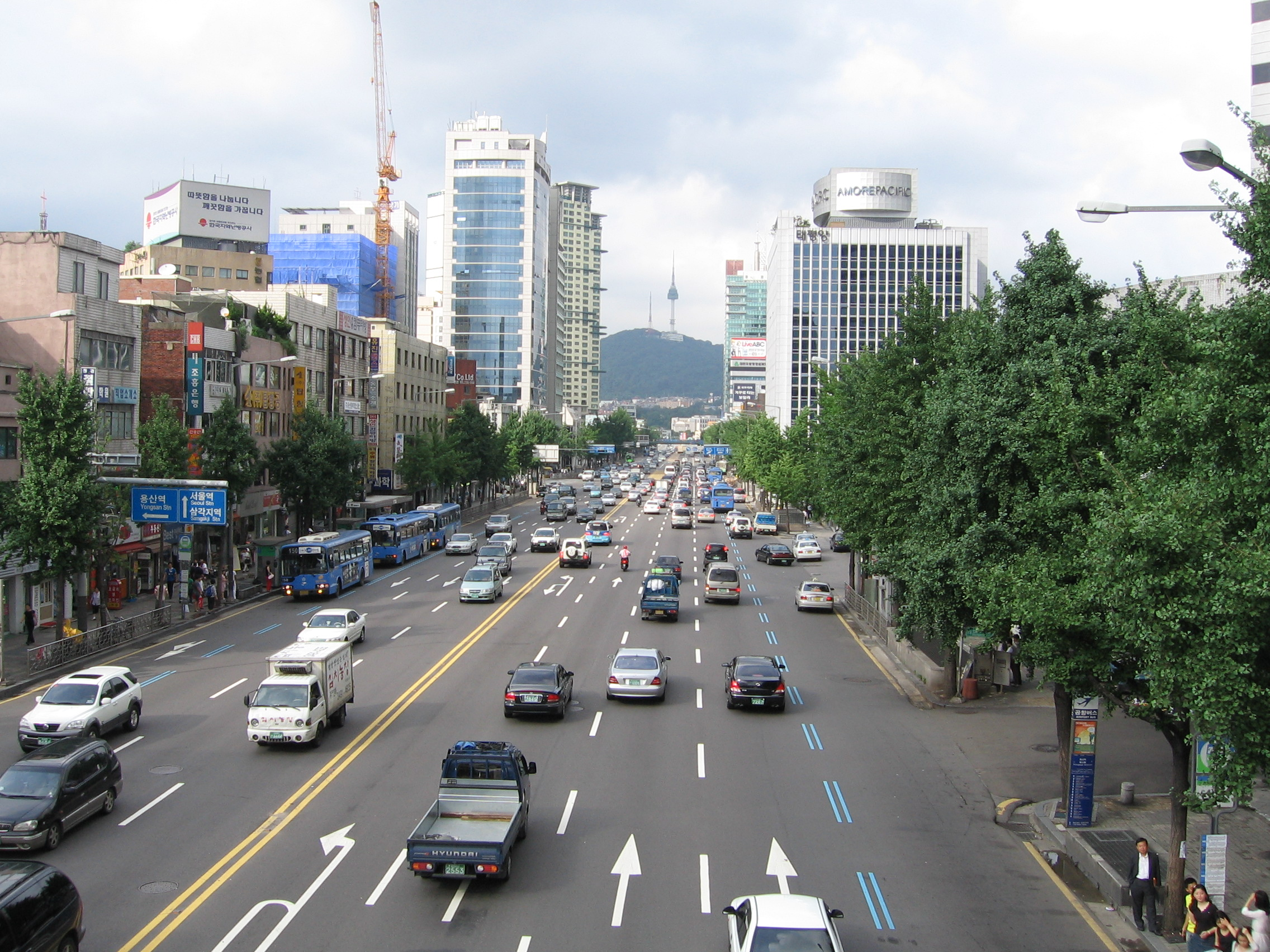 Typical street in Seoul Taken by myself (Johannes Barre, iGEL (talk)) on 2005-August-11.